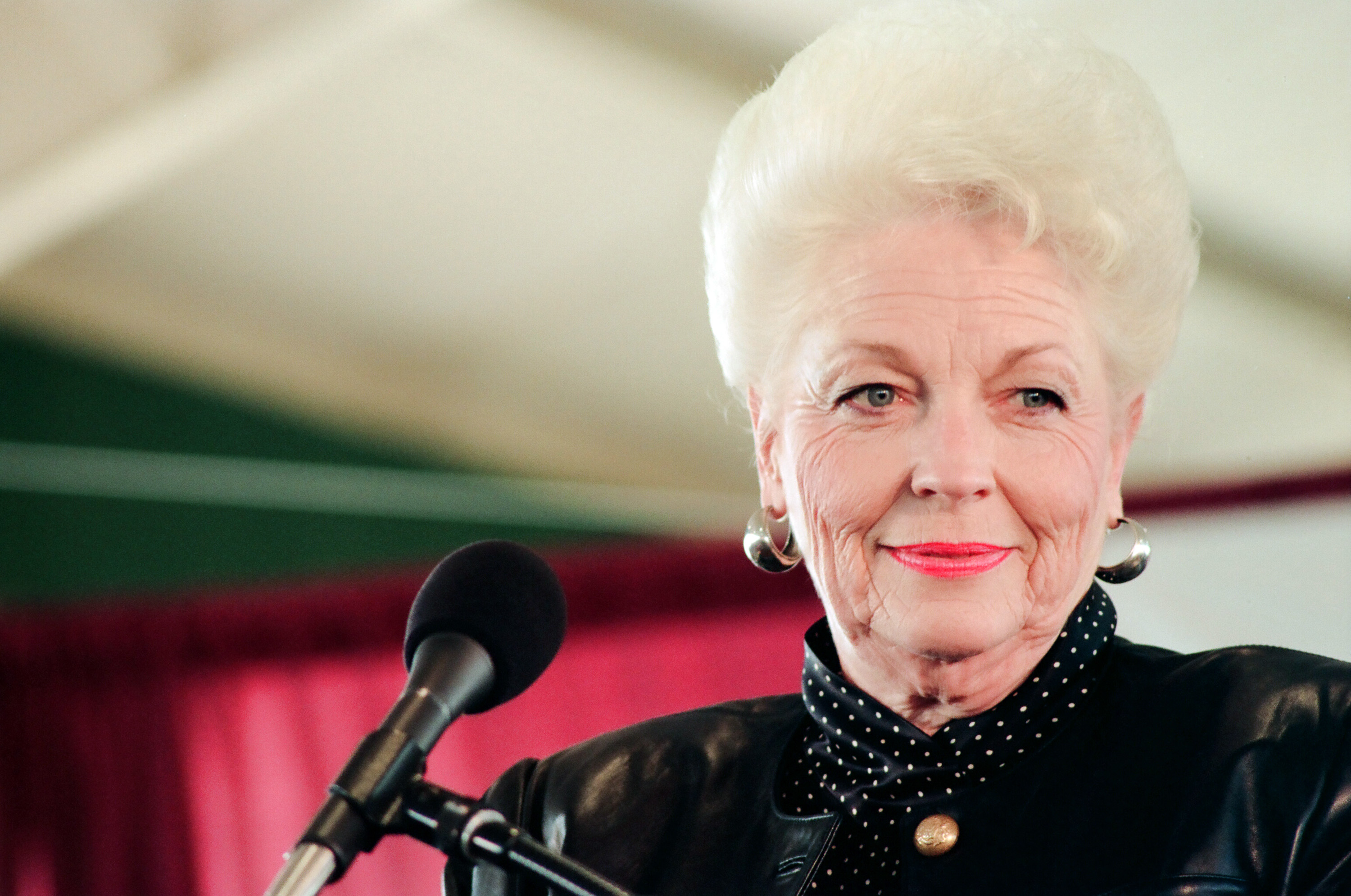 Ann Richards, Governor of Texas, campaigns in Raleigh NC on behalf of NC Governor Jim Hunt. October 18, 1992.